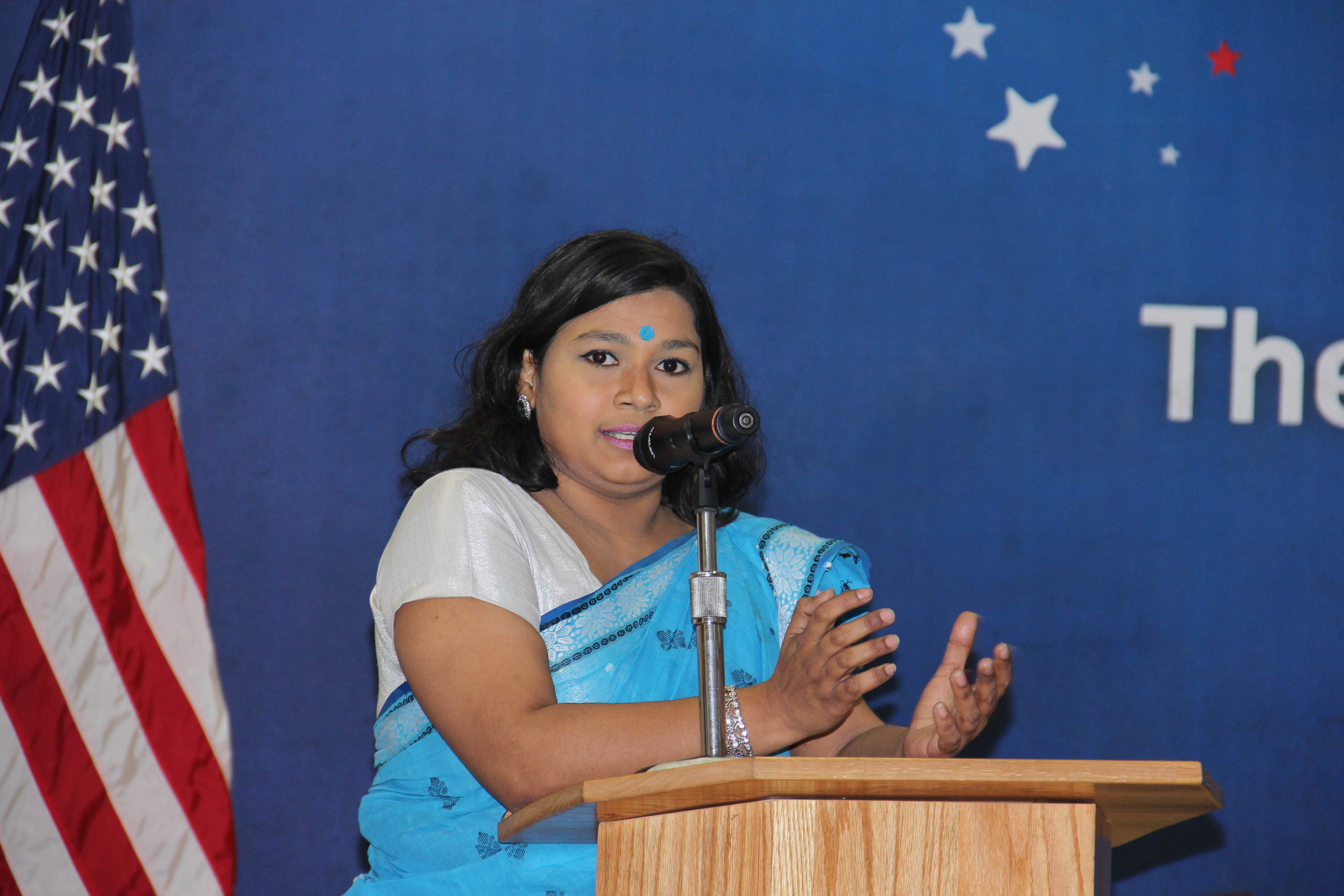 Nadia Sharmeen, a recipient of the U.S. Department of State's 2015 International Women of Courage Awards!